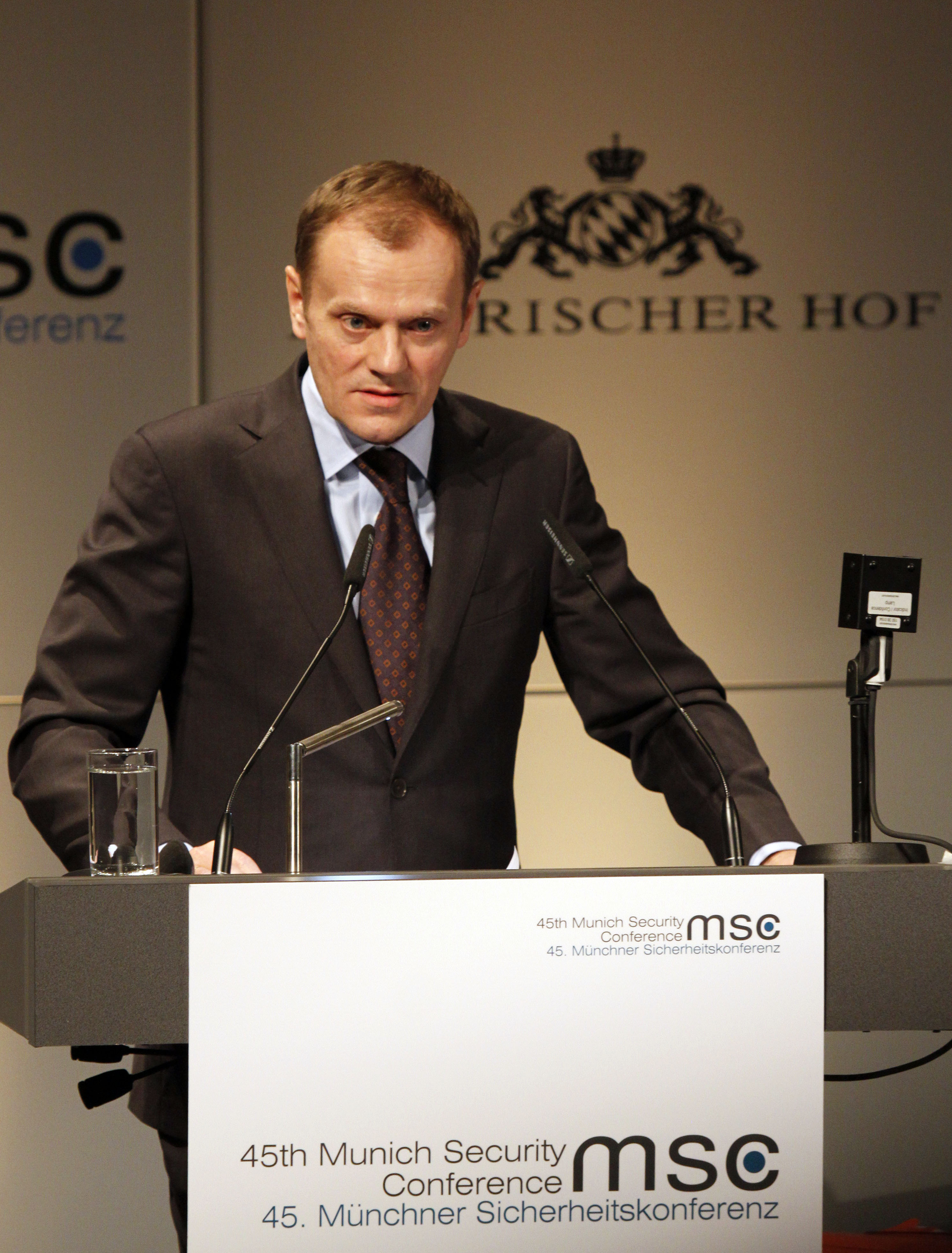 45th Munich Security Conference 2009: Donald F. Tusk, Prime Minister, Republic of Poland, during his speech on Saturday morning.